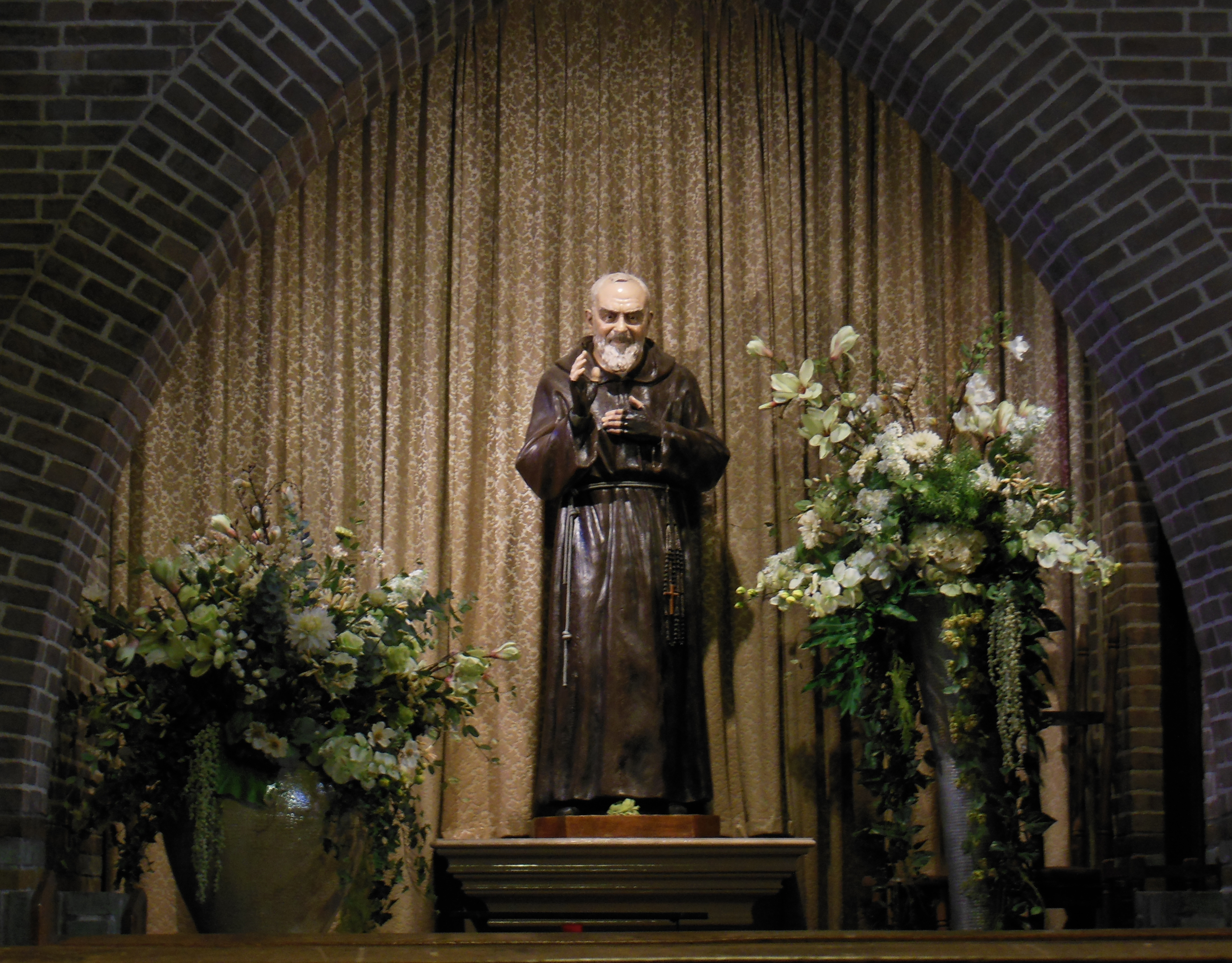 Saint Joseph church Leiden